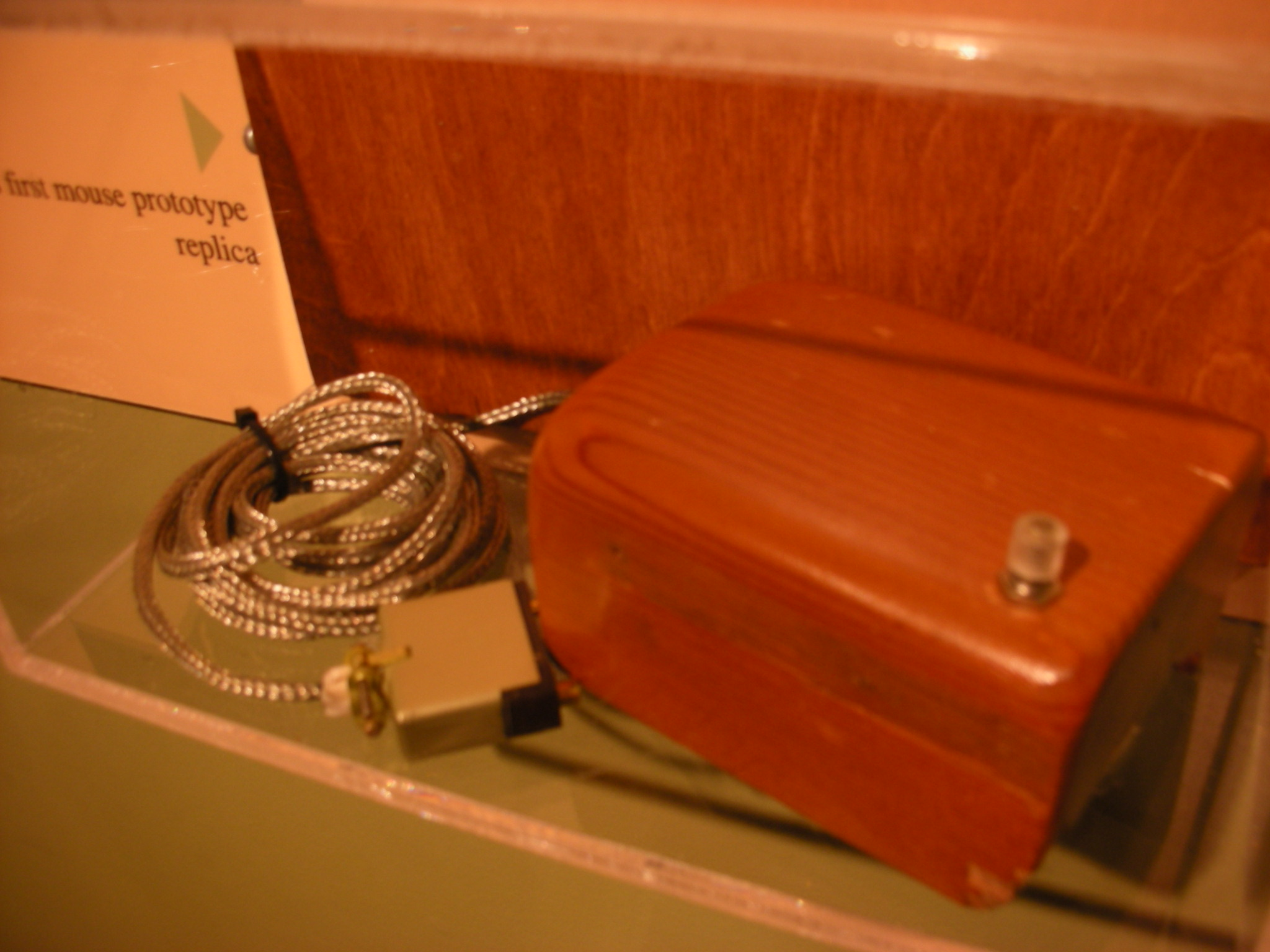 Replica of one of the first computer mouse prototypes